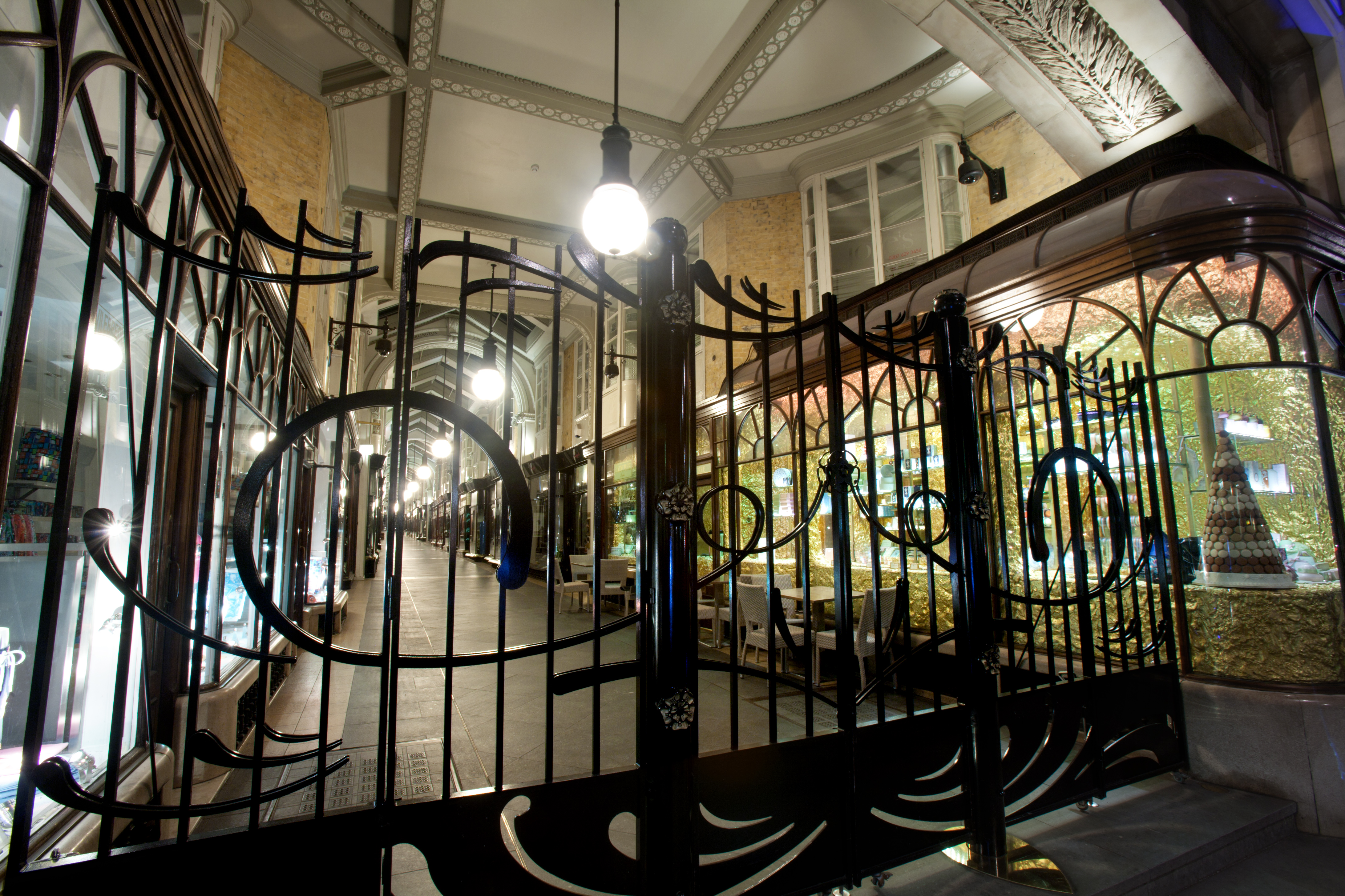 The Burlington Arcade, London, UK